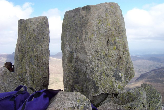 Adam and Eve stones on Tryfan summit. Adam and Eve stones on Tryfan summit at SH 66405 59396 looking Northeast.